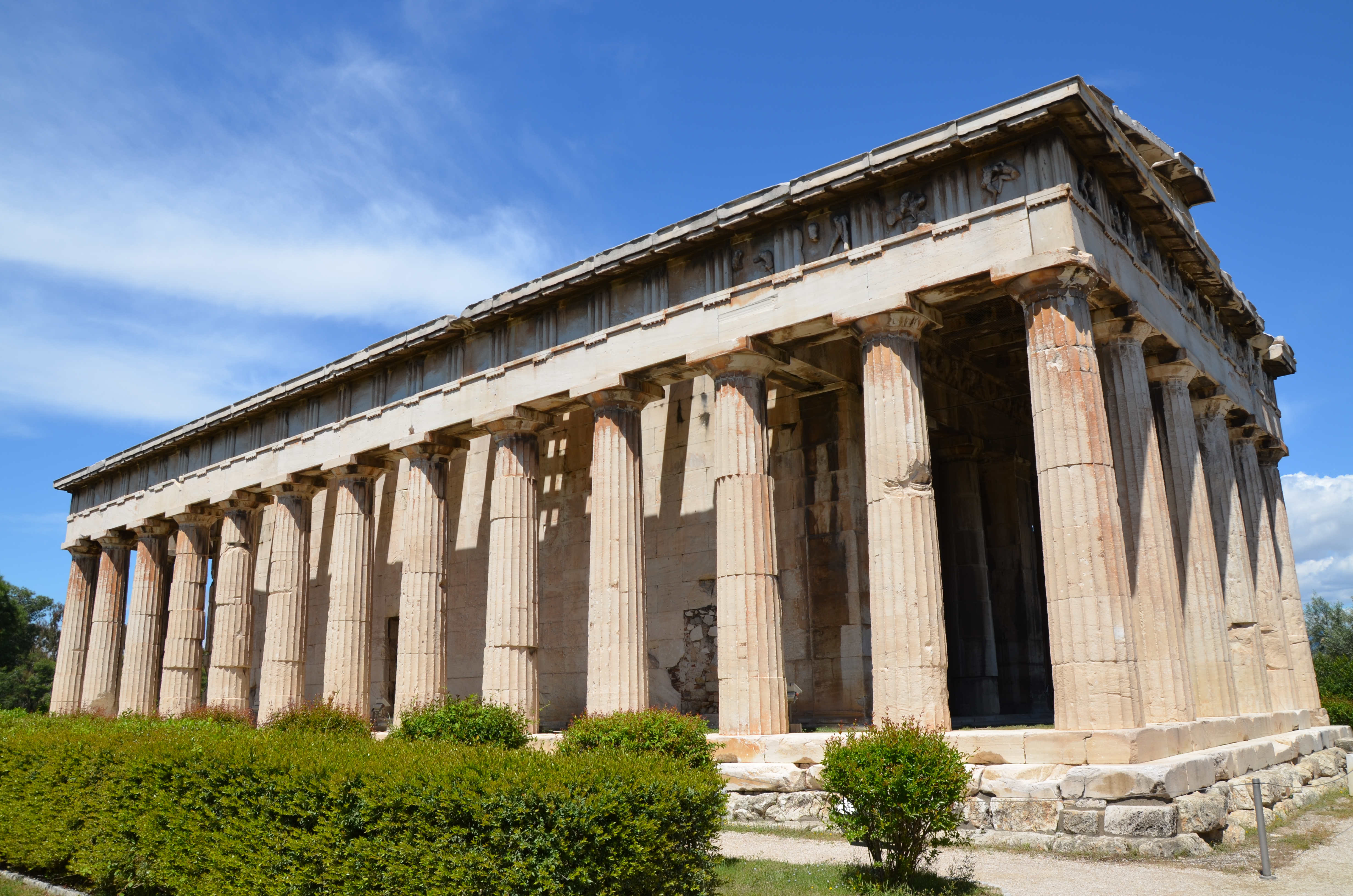 Temple of Hephaestus and Athena, built in 449 BC, Athens